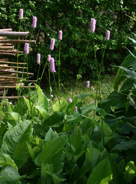 Bistorta officinalis: habit.